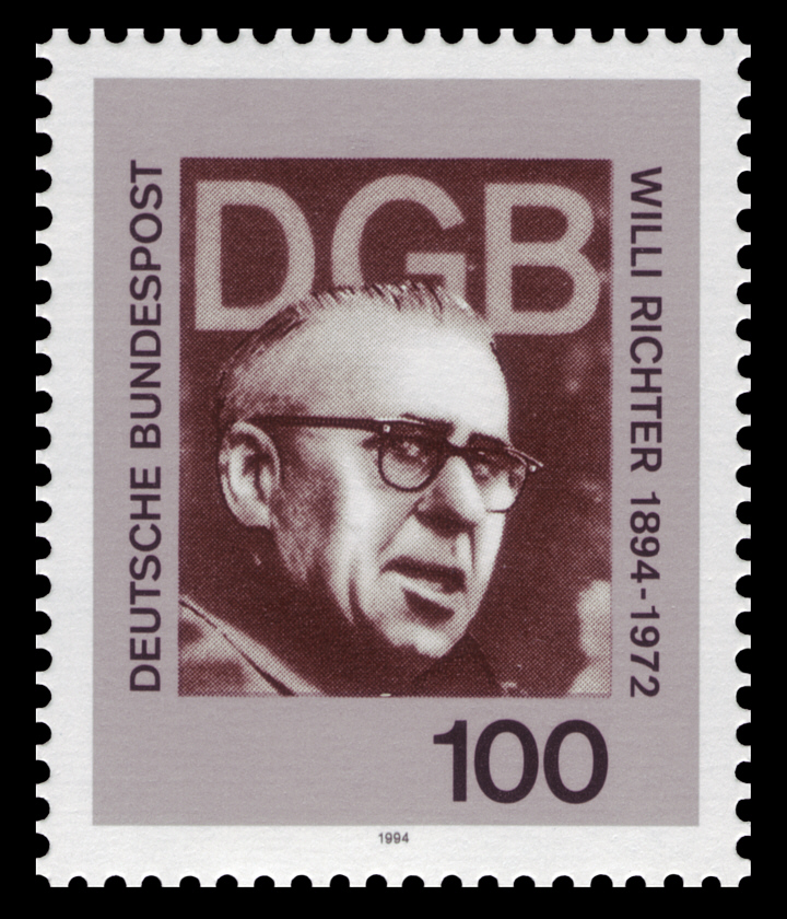 100th day of birth of Willi Richter (1894—1972)